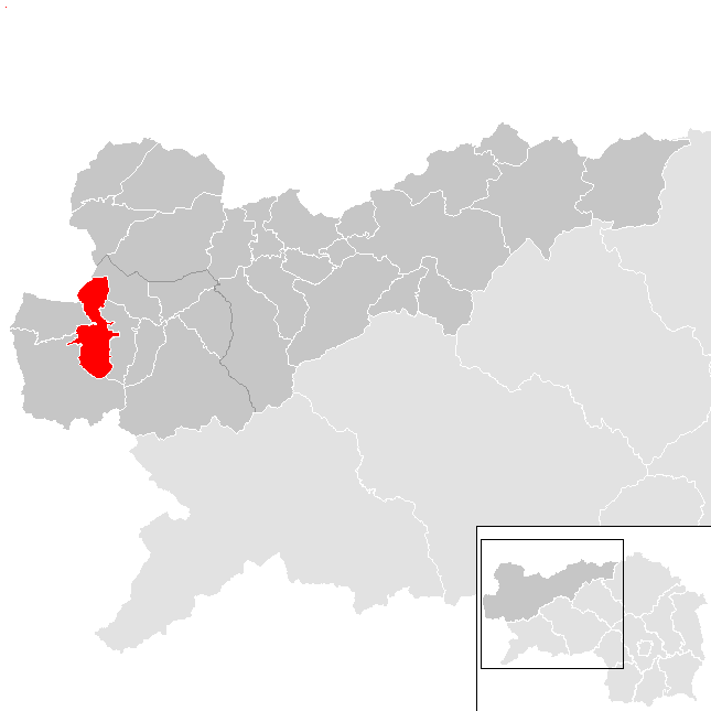 District Leoben